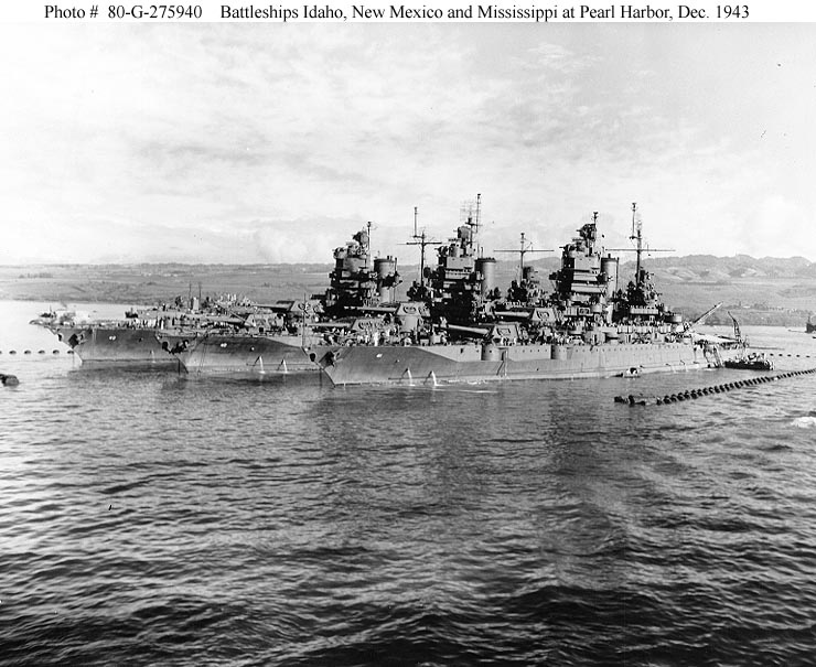 Battleships Idaho, New Mexico and Mississippi at Pearl Harbor, December 1943.